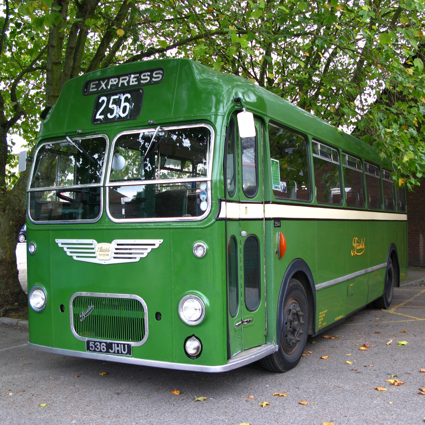 536 JHU is a Bristol/ECW MW single deck bus that was built in 1961 for Bristol Omnibus. It is seen at a bus enthuisasts' rally in warminster, Wiltshire.